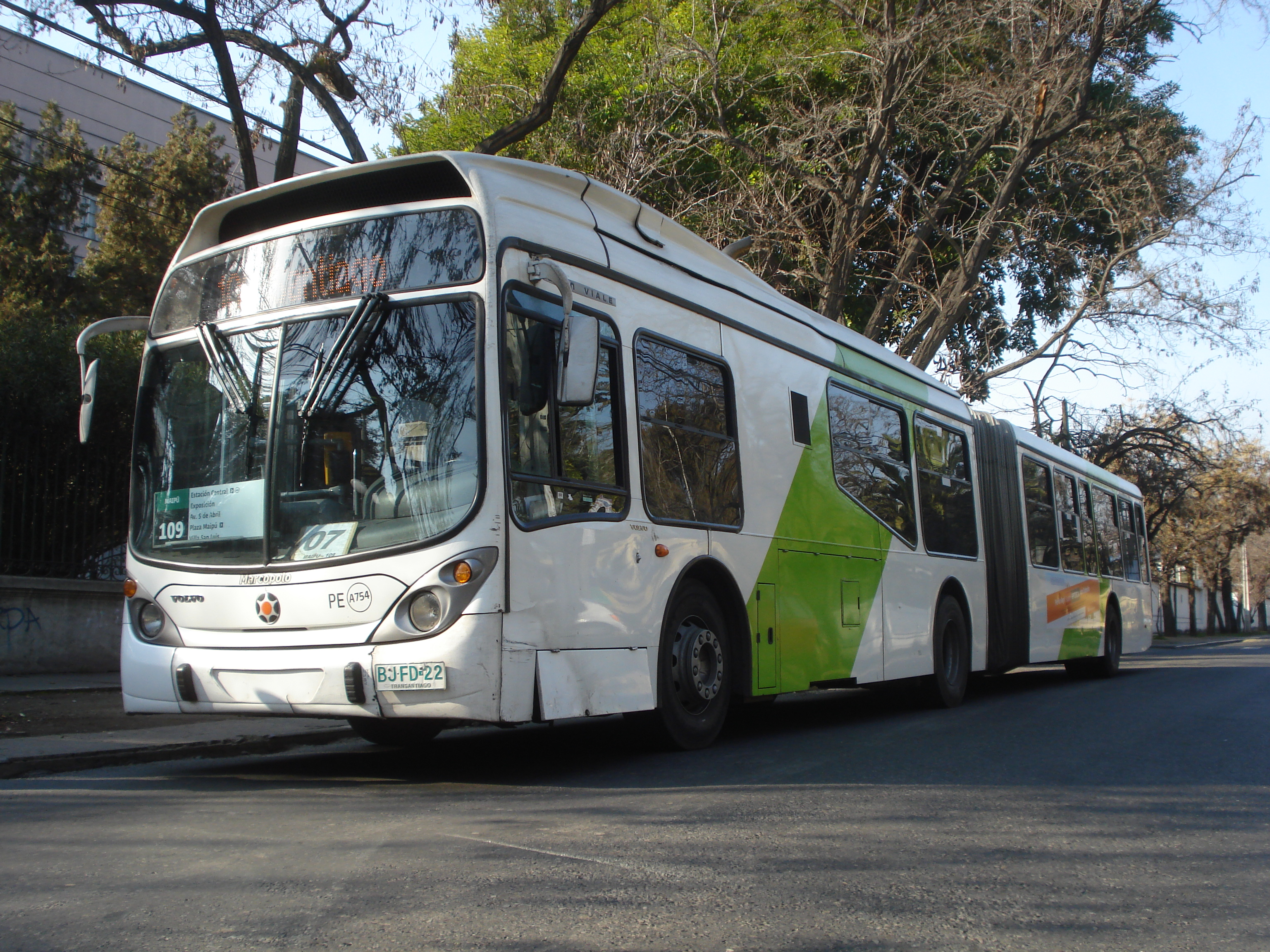 Marcopolo Gran Viale articulated bus (reg. BJFD-22, #PE A754) with Volvo B9SLA chassis on line 109 (07 Maipu 109) in Santiago de Chile, Chile. Transantiago.